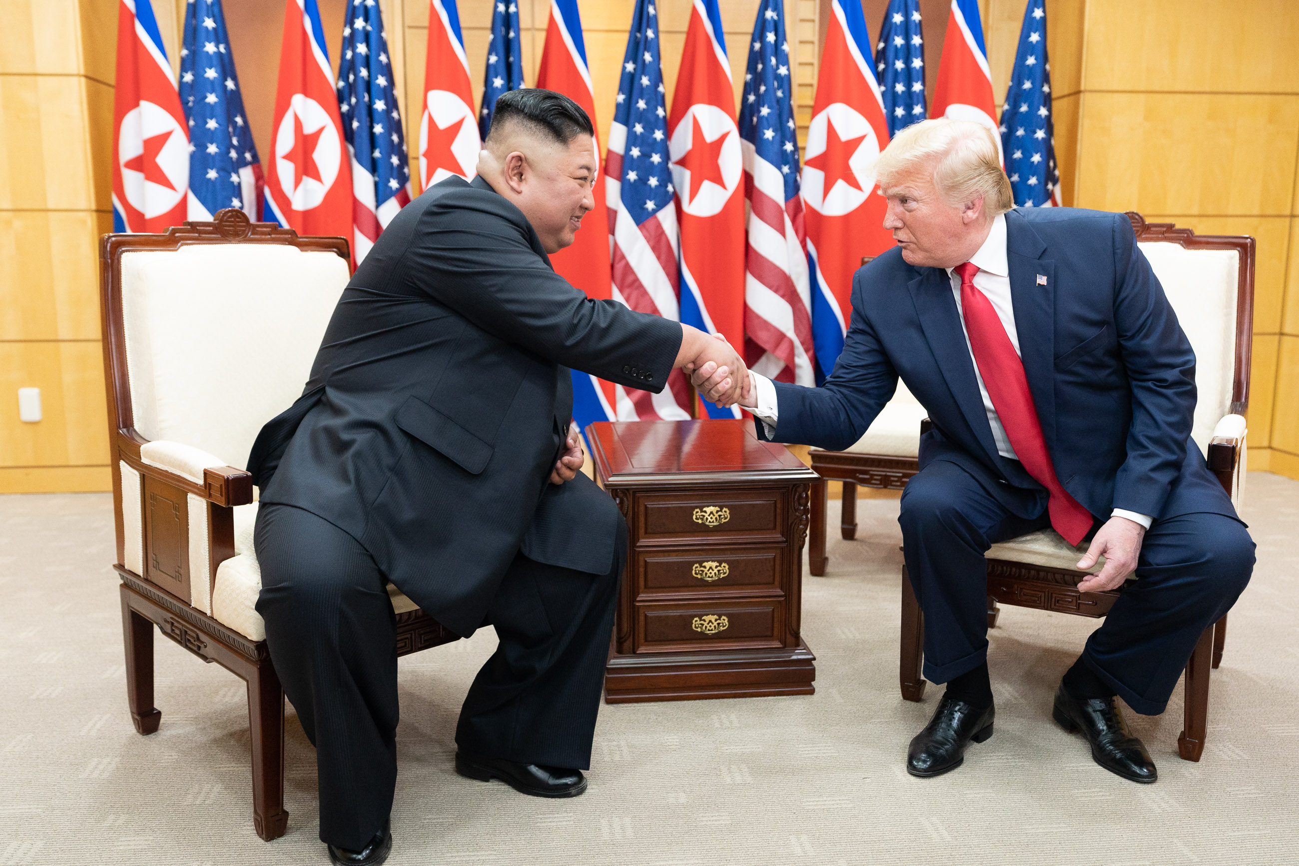 President Donald J. Trump and Chairman of the Workers’ Party of Korea Kim Jong Un speak to reporters Sunday, June 30, 2019, as the two leaders meet in Freedom House at the Korean Demilitarized Zone. (Official White House Photo by Shealah Craighead)